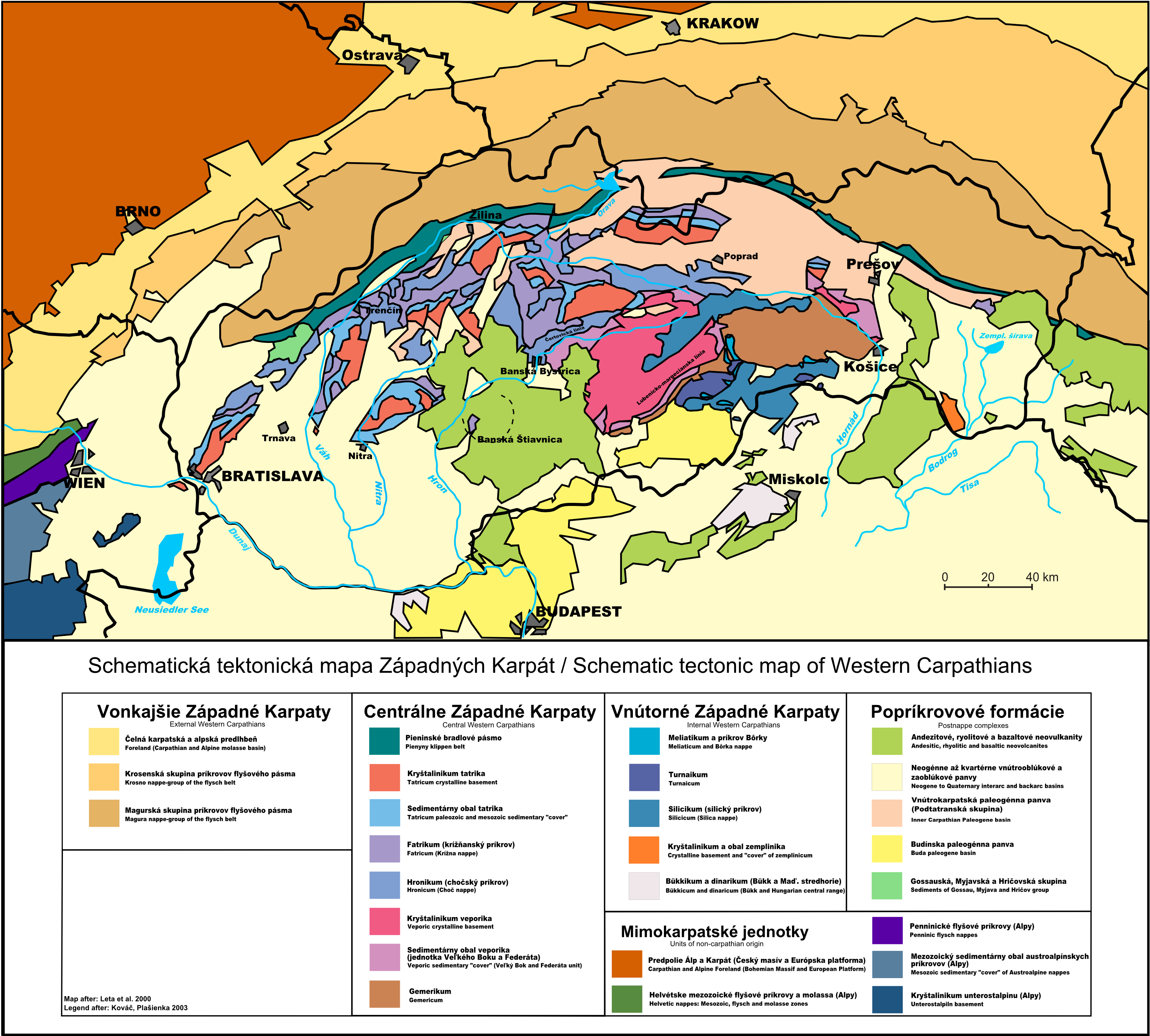 Schematic geolgical map of Western Carpathians, with explanation